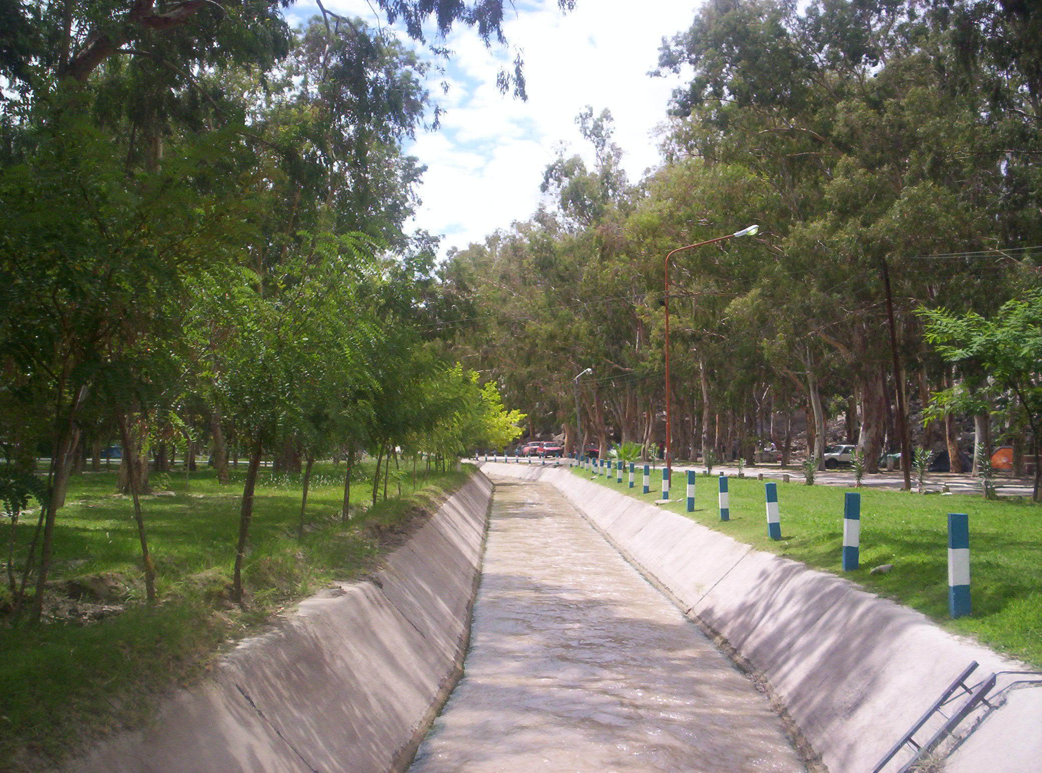 Photograph showing an irrigation channel to the side of the hill Blanco foothills of the Province of San Juan Argentina